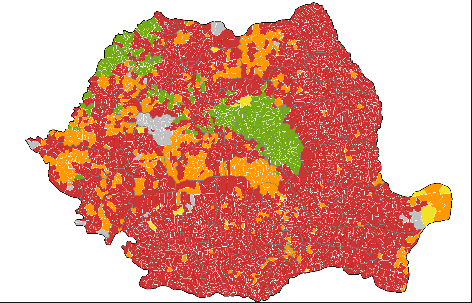 Social Democratic Party Justice and Truth Alliance Democratic Union of Hungarians in Romania Greater Romania Party Own work. Used the local administrative units of Romania map.